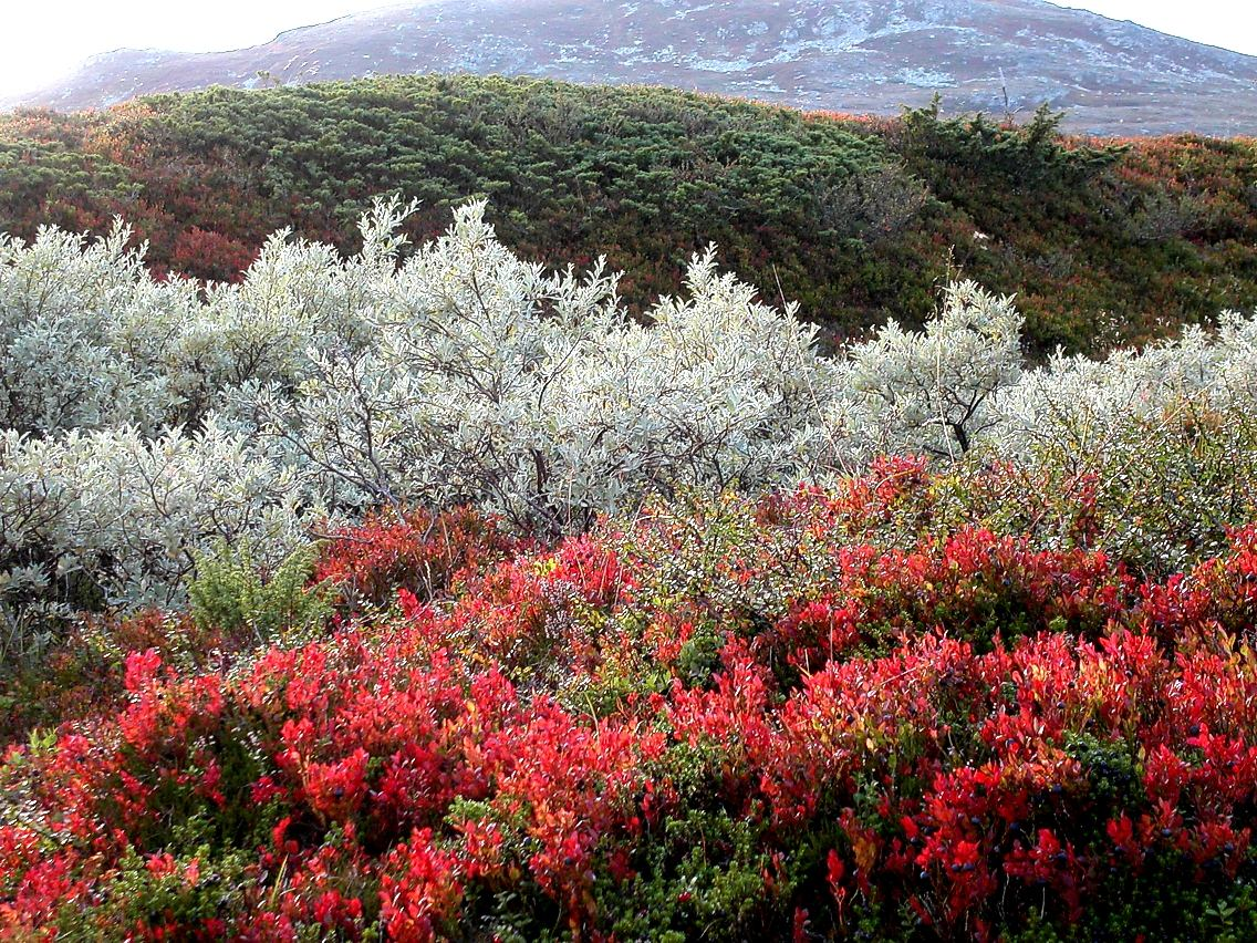 Some typical plants in Norwegian mountains close to the Swedish border. On top is some very low Juniperus communis. The greyish green bushes are Salix lapponum. Under that to the left is a little Polypodium vulgare, and to the right, Betula nana. Then there is a lot of autumn red Vaccinium myrtillus (you can see the very blueberries if you view original size). Under and mixed with blueberry there is some Empetrum nigrum.